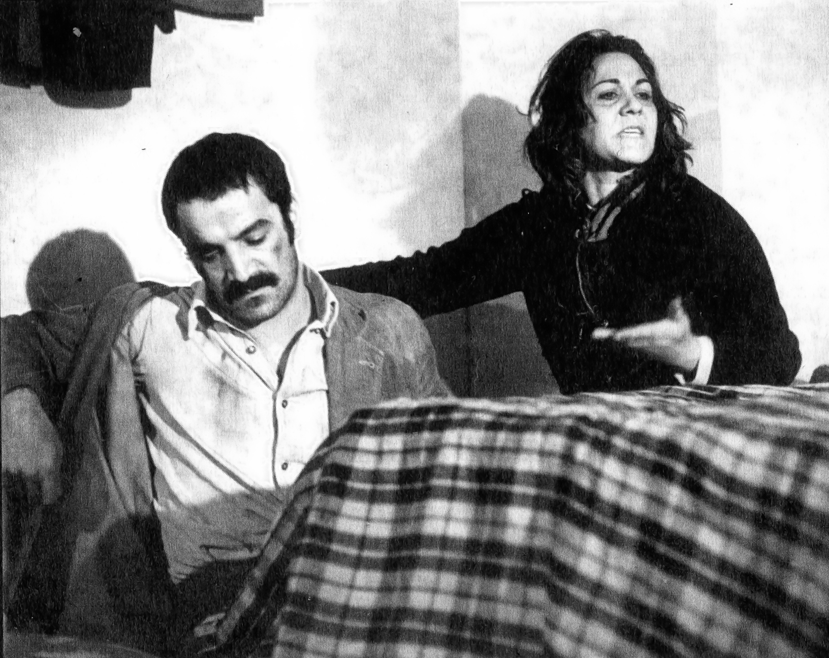 Said Rad and Mehri Vahdadian in a scene from the film Tangna, directed by Amir Naderi, Iran, 1351/1976